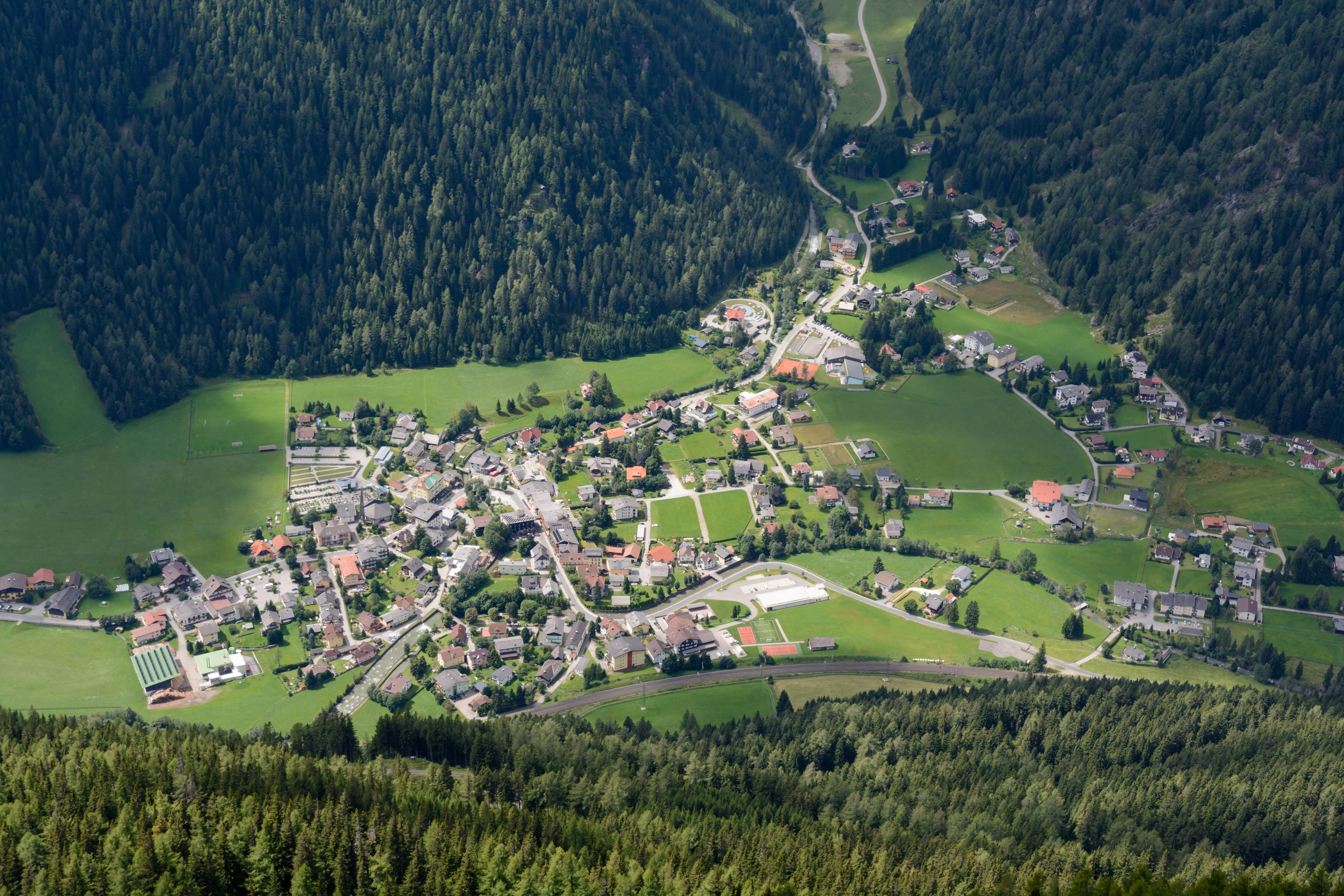 View from Auernig mountain (2,130 metres (6,990 ft)) to Mallnitz, Carinthia, Austria